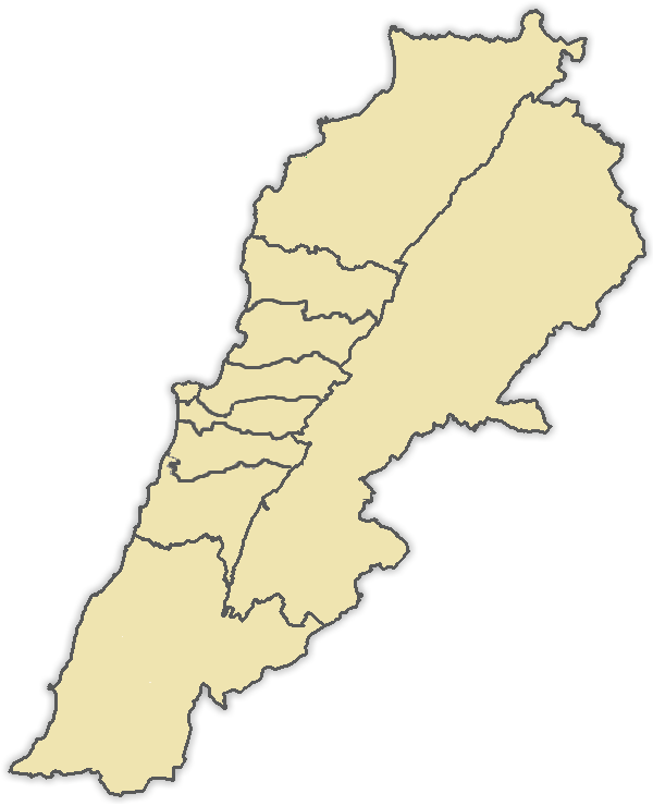 1996 vote law electoral districts. Based on File:1992 Vote Law Electoral Districts - Lebanon.png, note the merger of the Bekaa districts per and